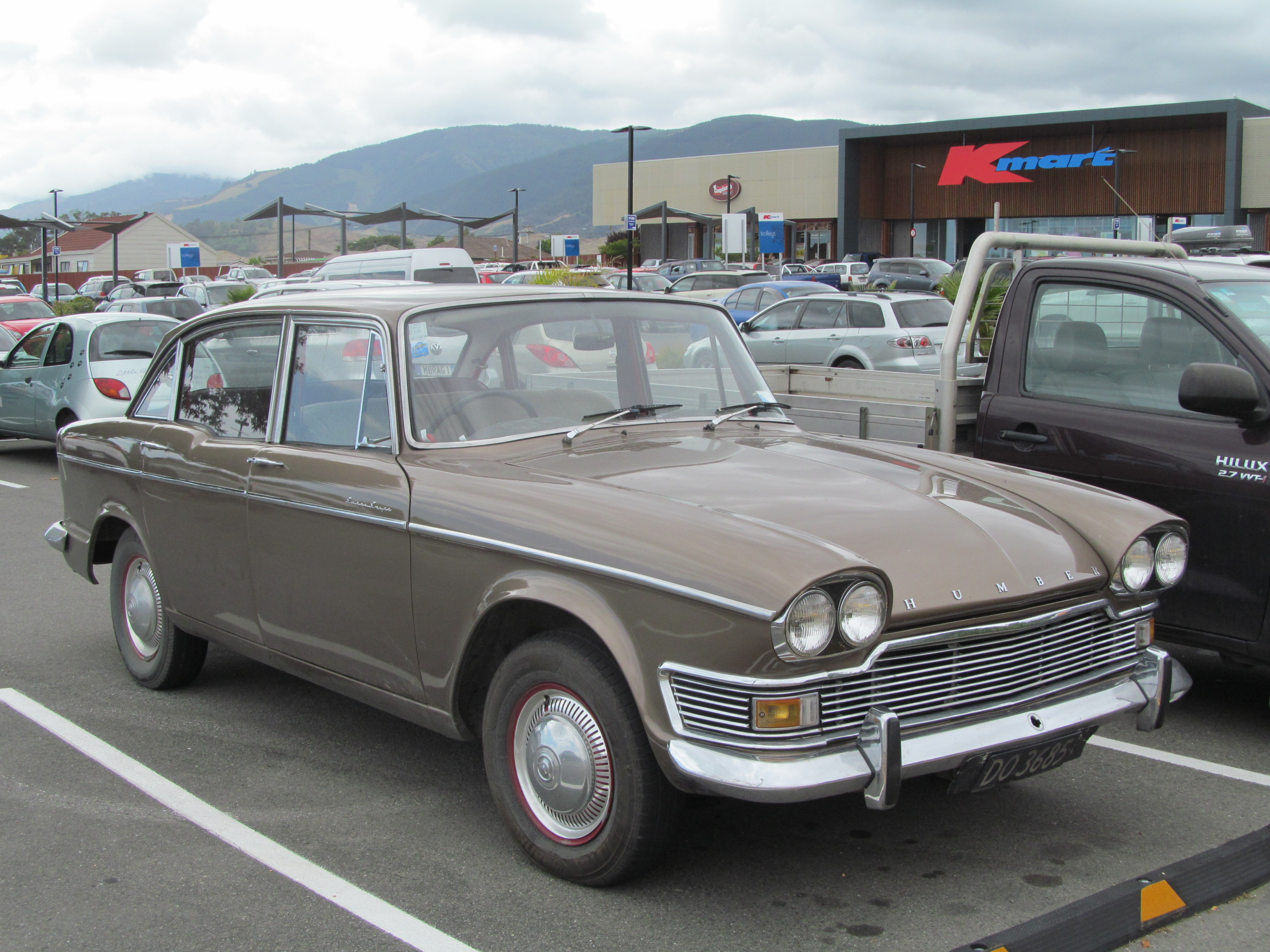 One of quite a few I saw in the Nelson region at the start of the year. This was a beautifully kept example.